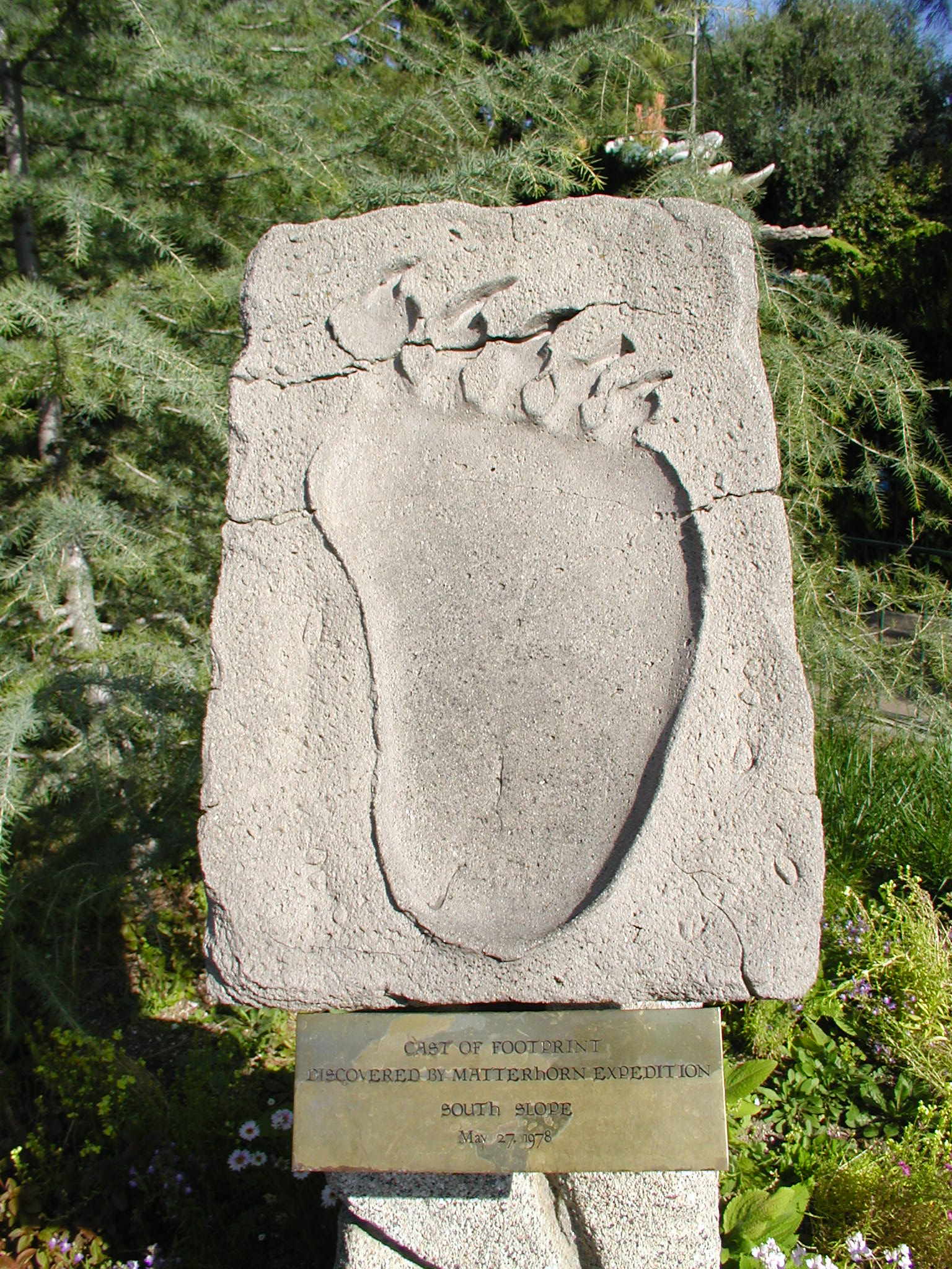 Found outside of the Matterhorn. Picture is mine.